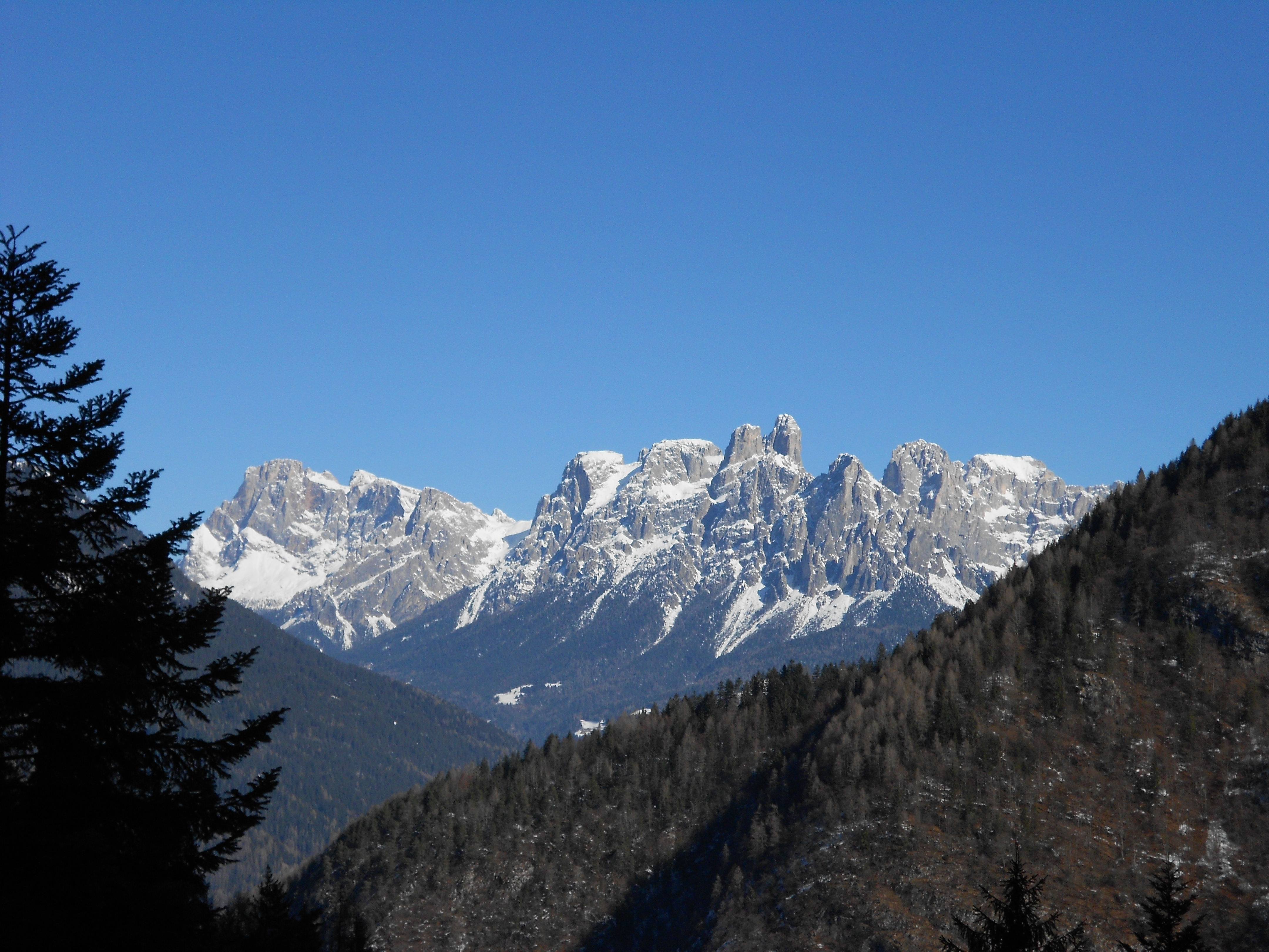 The Pale of San Martino